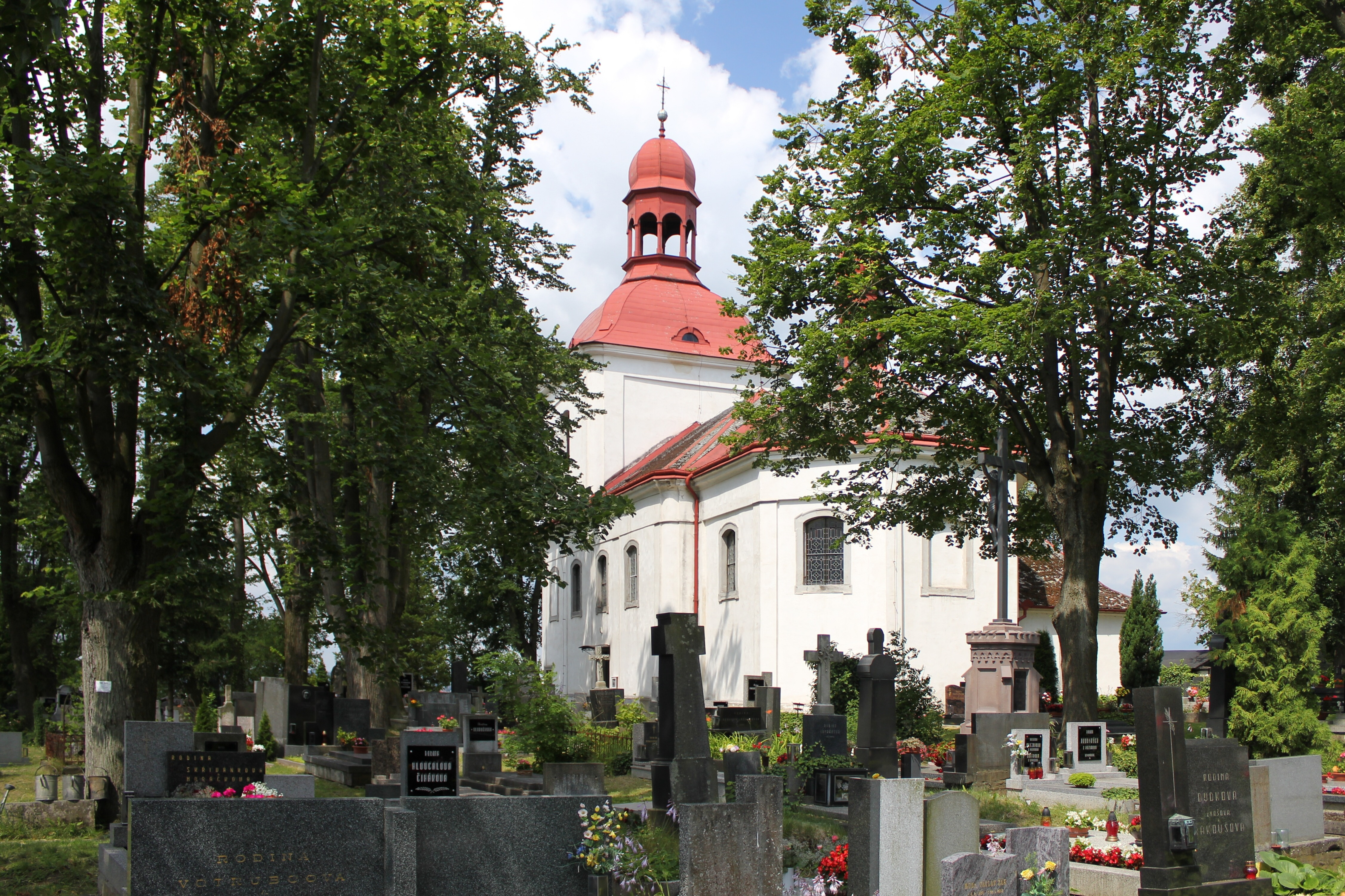 Turnov (Hruštice) - church of st. Matthias